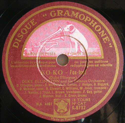 Duke Ellington Orchestra - Koko